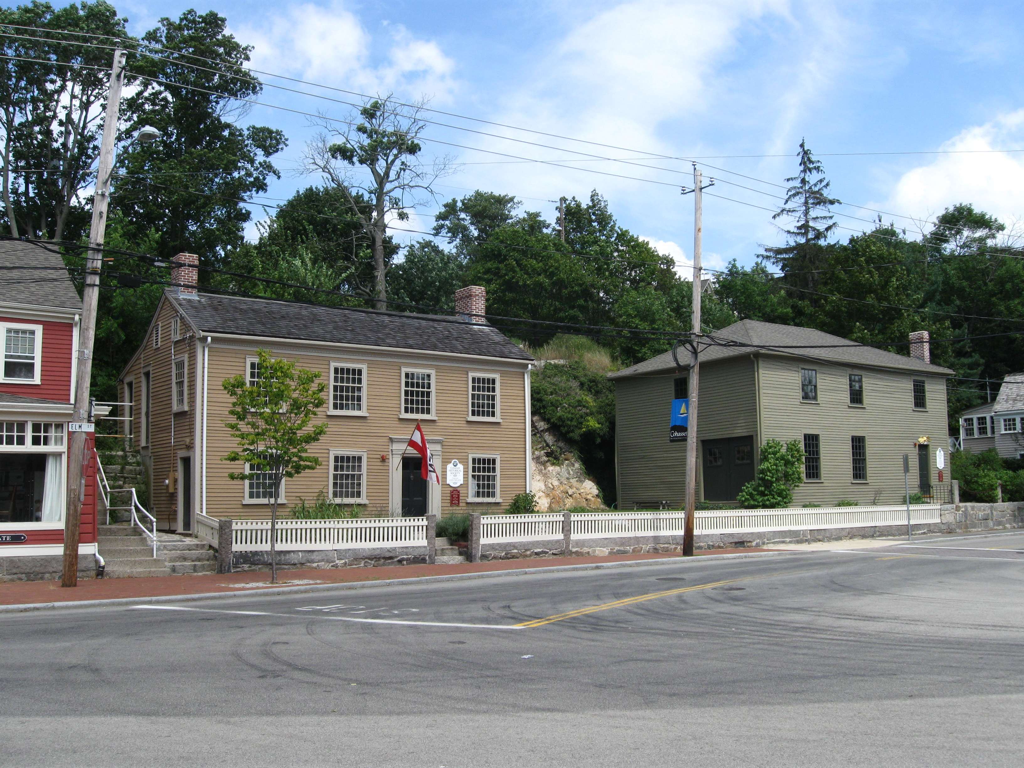 The Capt. John Wilson House and Bates Ship Chandlery (left and right respectively) in Cohasset, Mass., USA.